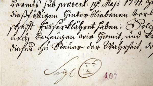 Signature of Bernard Hennet, Abbot of Žďár nad Sázavou Cistercian cloister, in 1741, with smiley-like drawing